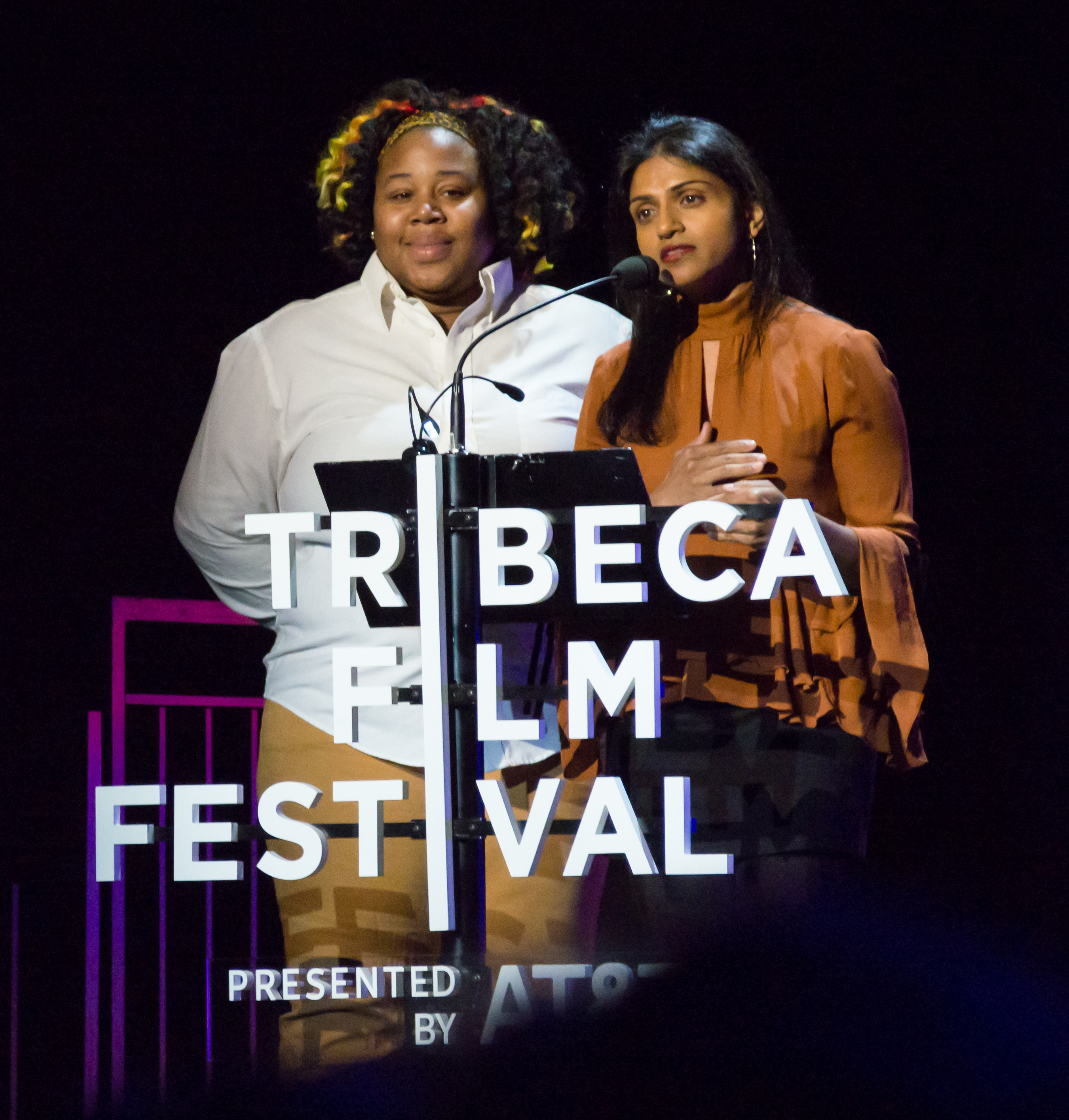 Time's Up event at the 2018 Tribeca Film Festival (Tribeca Talks: Time's Up). A series of talks/performances about Time's Up/sexual harassment. Shanita Thomas and Saru Jayaraman speaking about women in the restaurant industry.